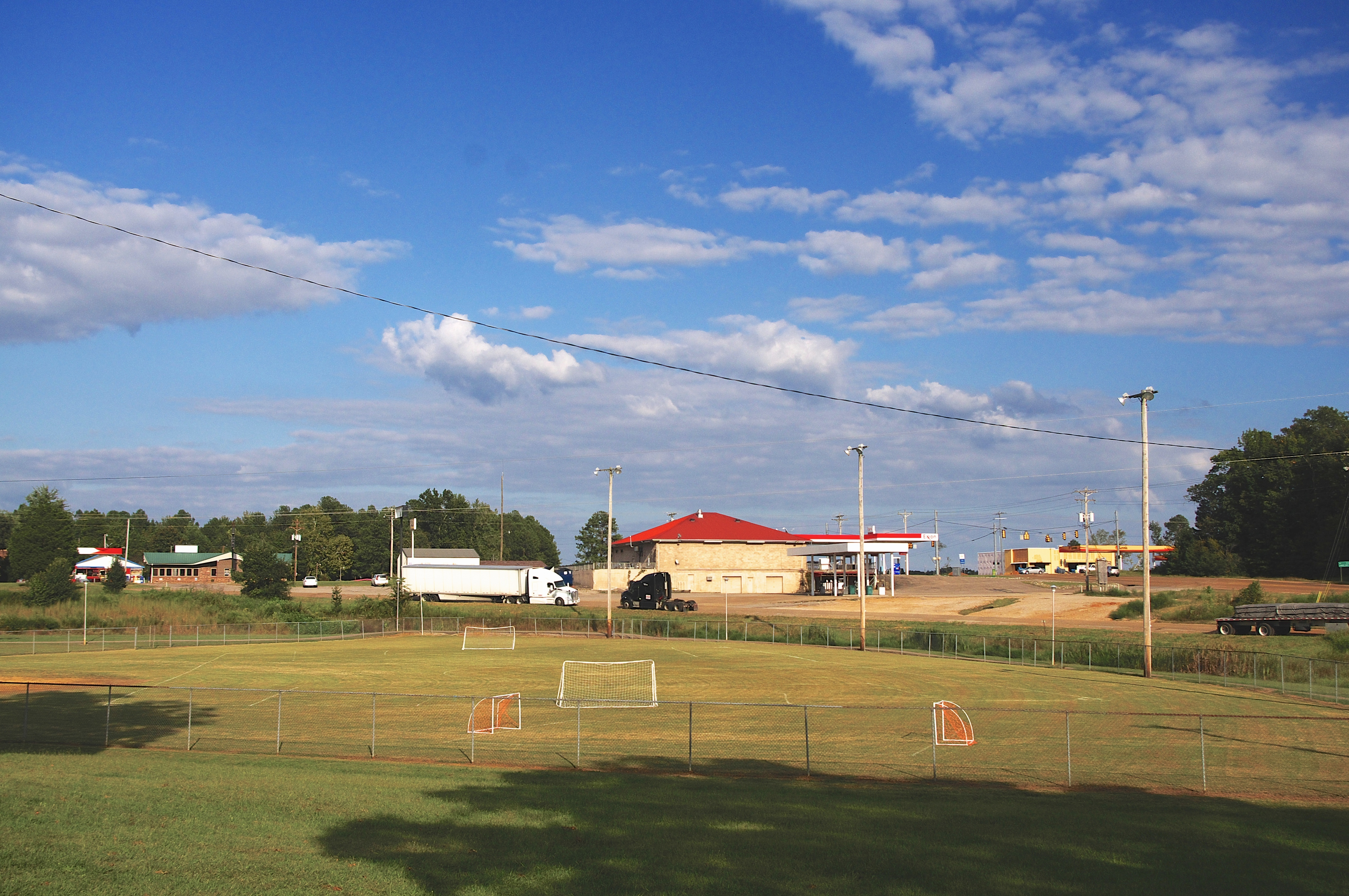 Businesses in Eastview, Tennessee, United States, viewed from the Eastview Civic Center.